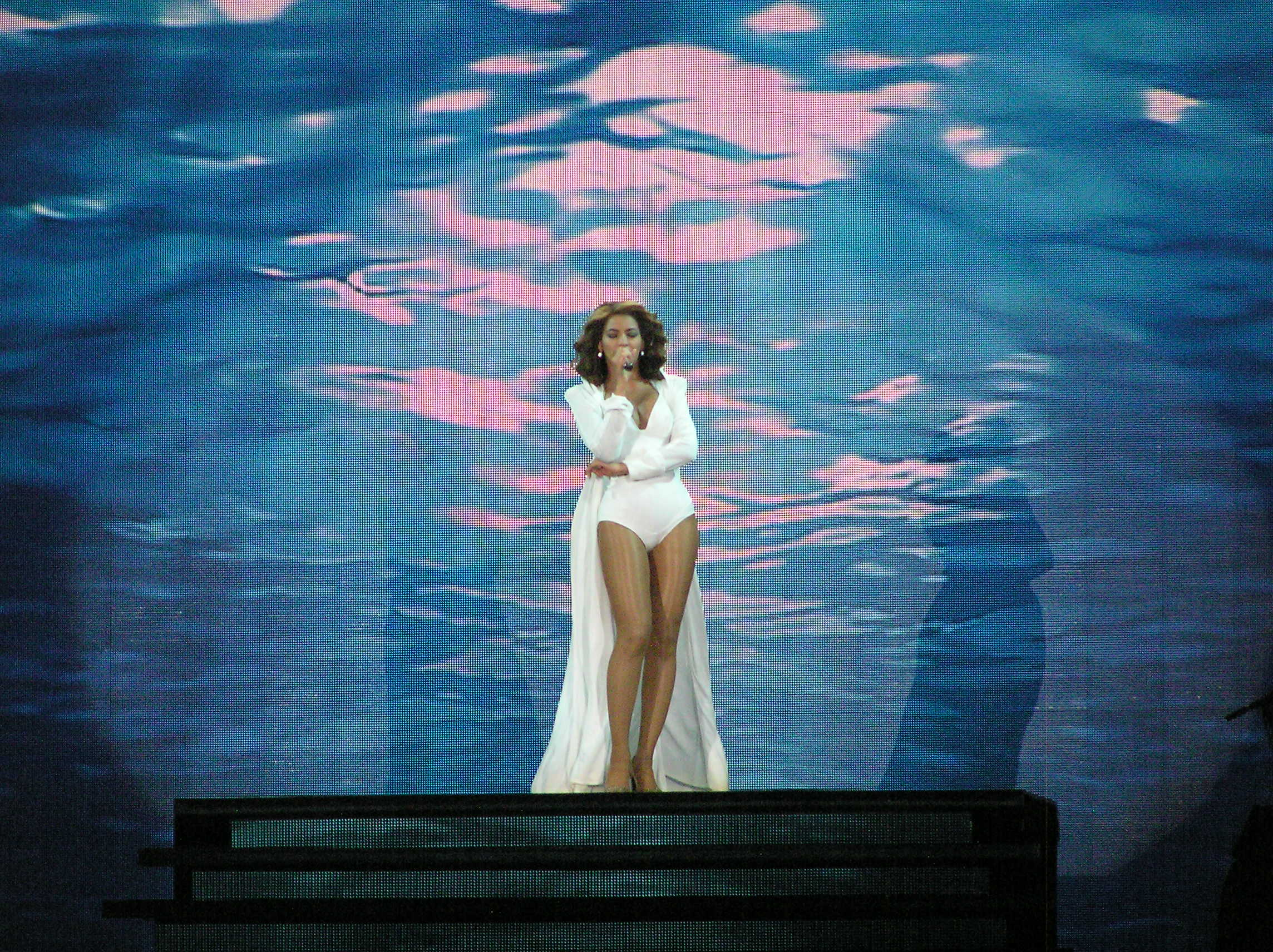 Beyoncé Newcastle 2009